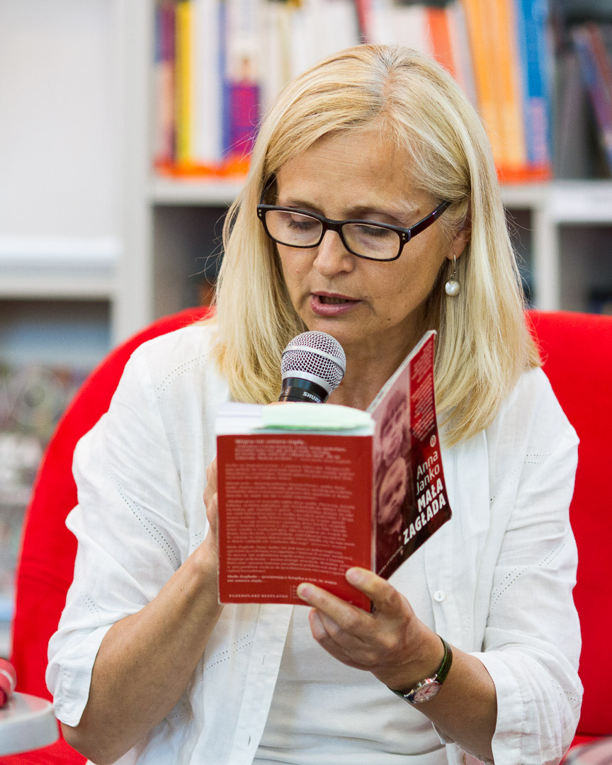 Anna Janko on Authors’ Reading Month 2015, Wrocław, Poland